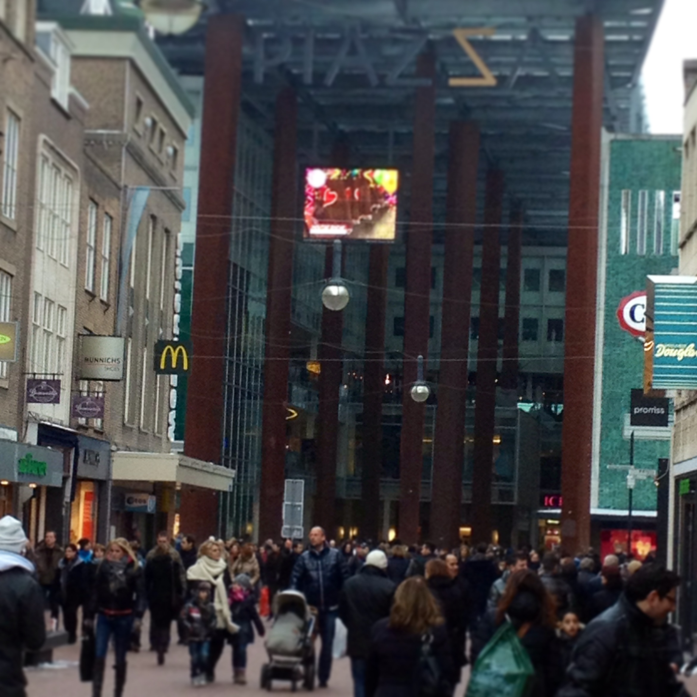 The Piazza Centre, Eindhoven. As seen from Demel. January 2013.